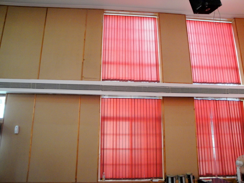 Most church halls have this aspect missing - Sound proofing. These guys had it. And very nice feel to the hall too.